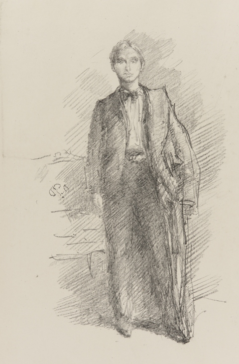 Lithographic portrait of Herbert Charles "Jerome" Pollitt by Whistler